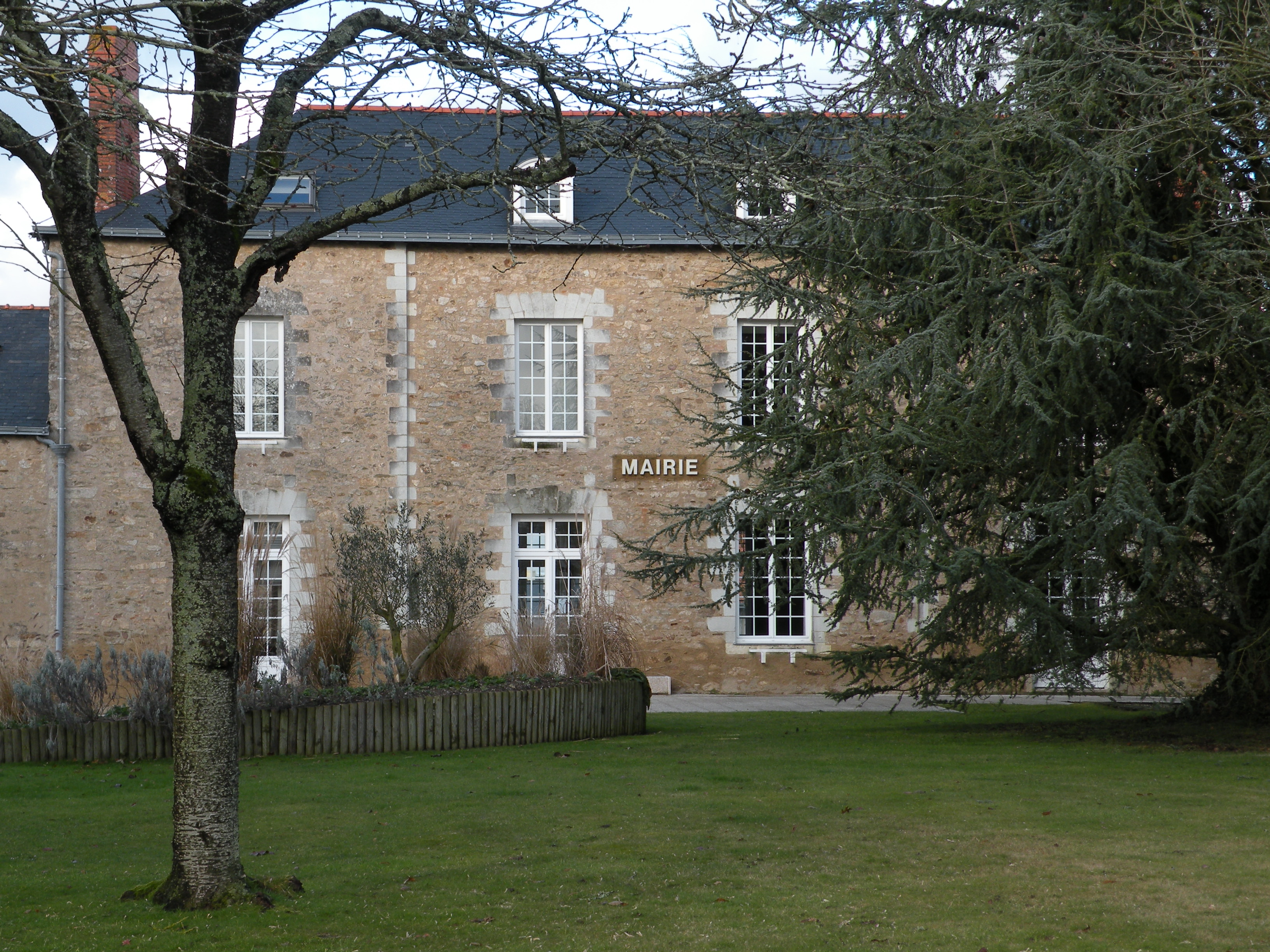 Town hall of Sautron